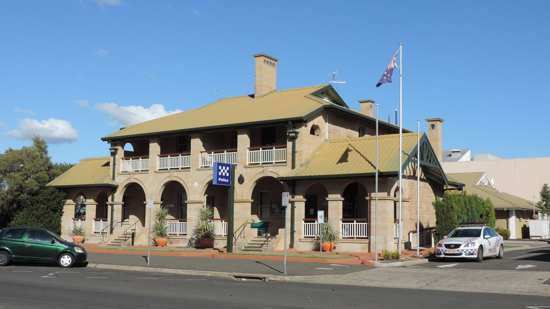 Warwick Police Station, 86 Fitzroy Street, Warwick, 2015